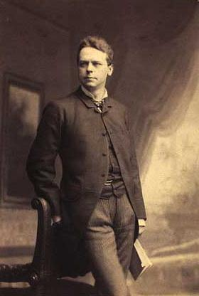 Photo